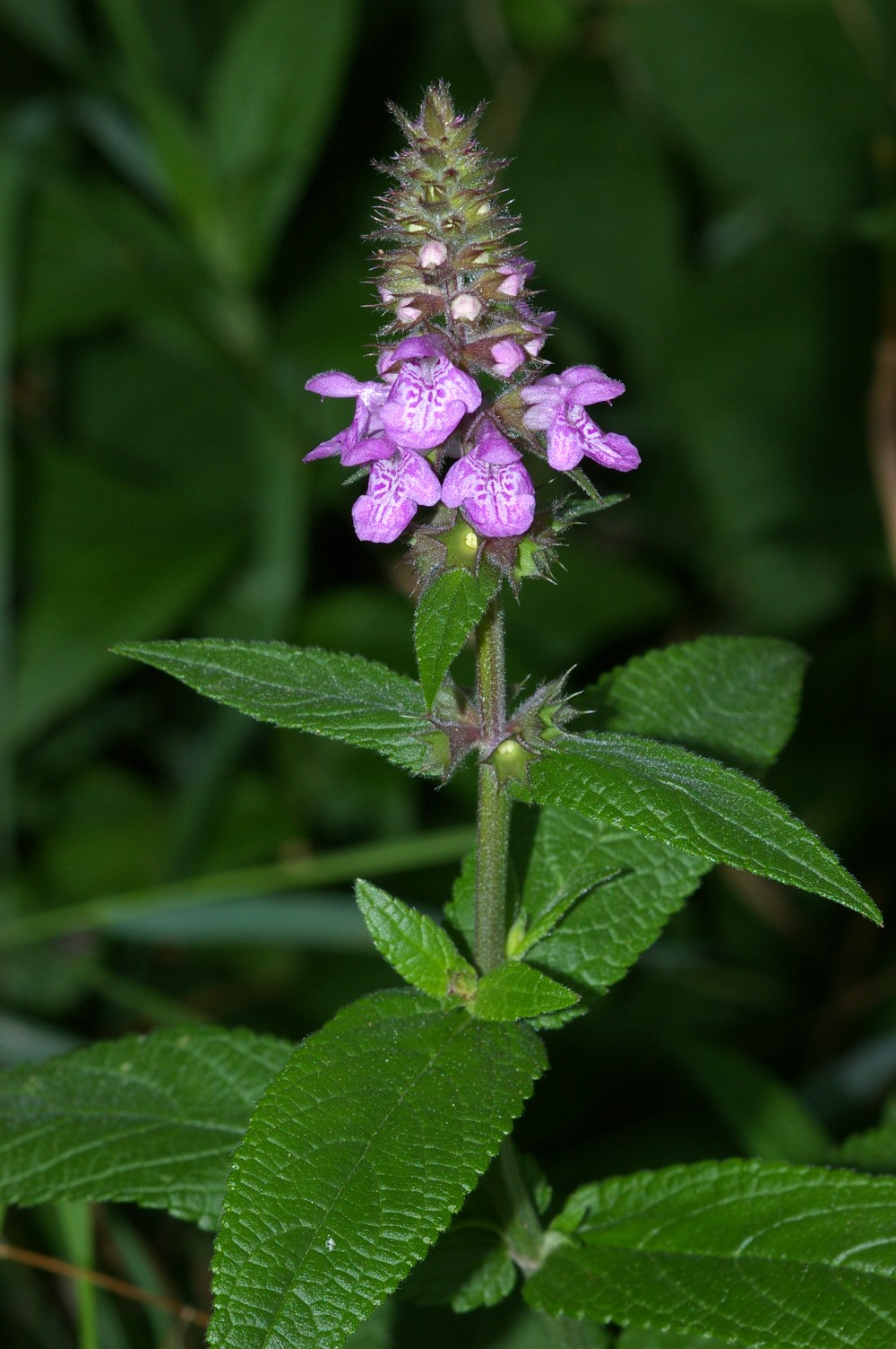 Inflorescence of Stachys palustris (Lamiaceae).